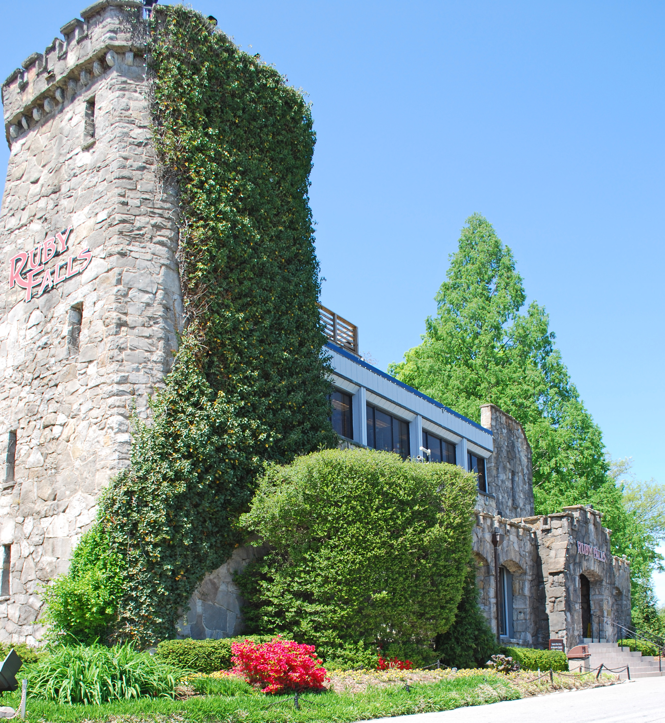 Lookout Mountain Castle, Chattanooga TN